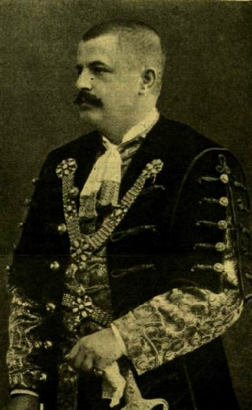 Photo of Béla Mezőssy